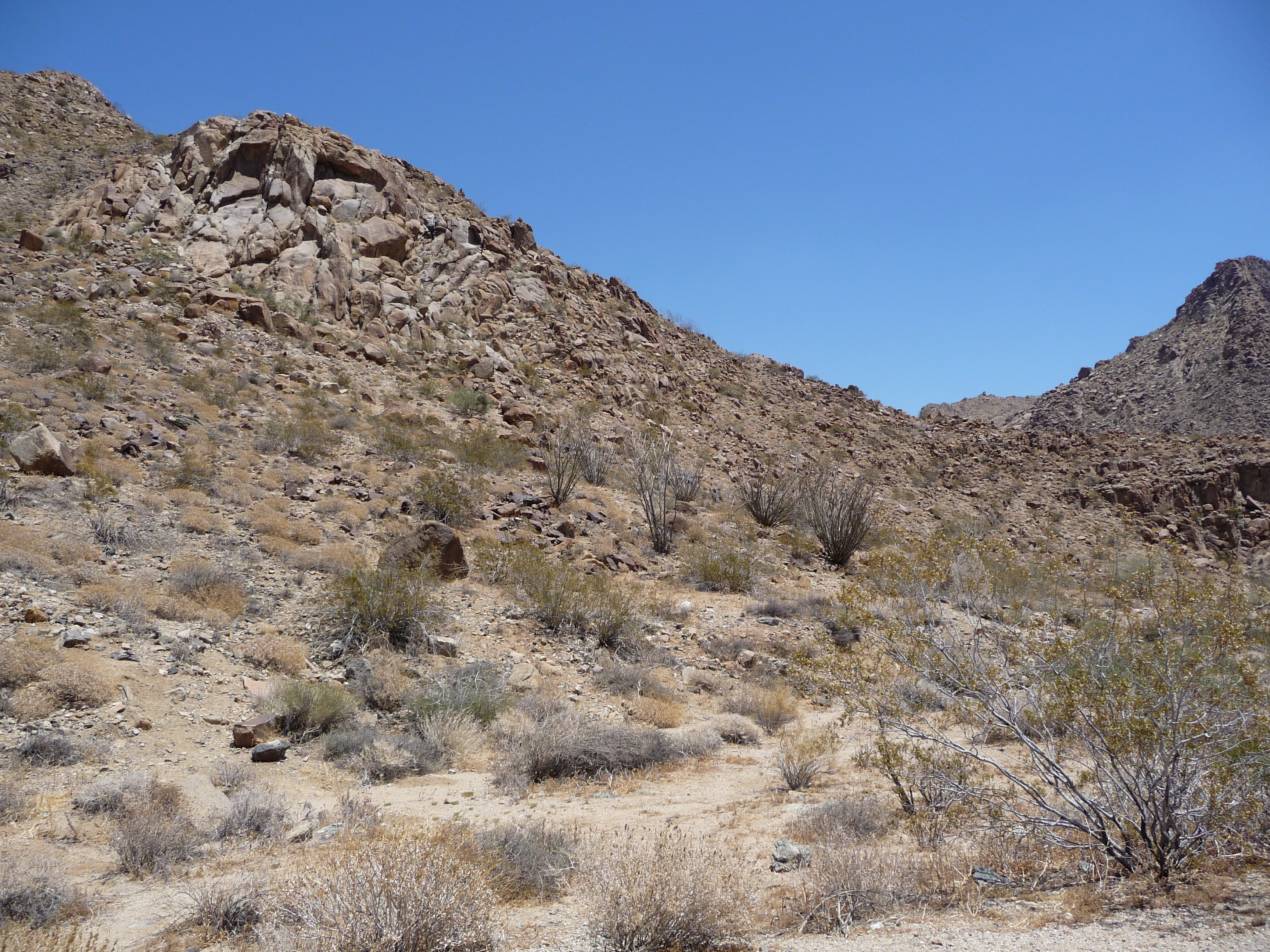 Joshua Tree National Park - Colorado Desert